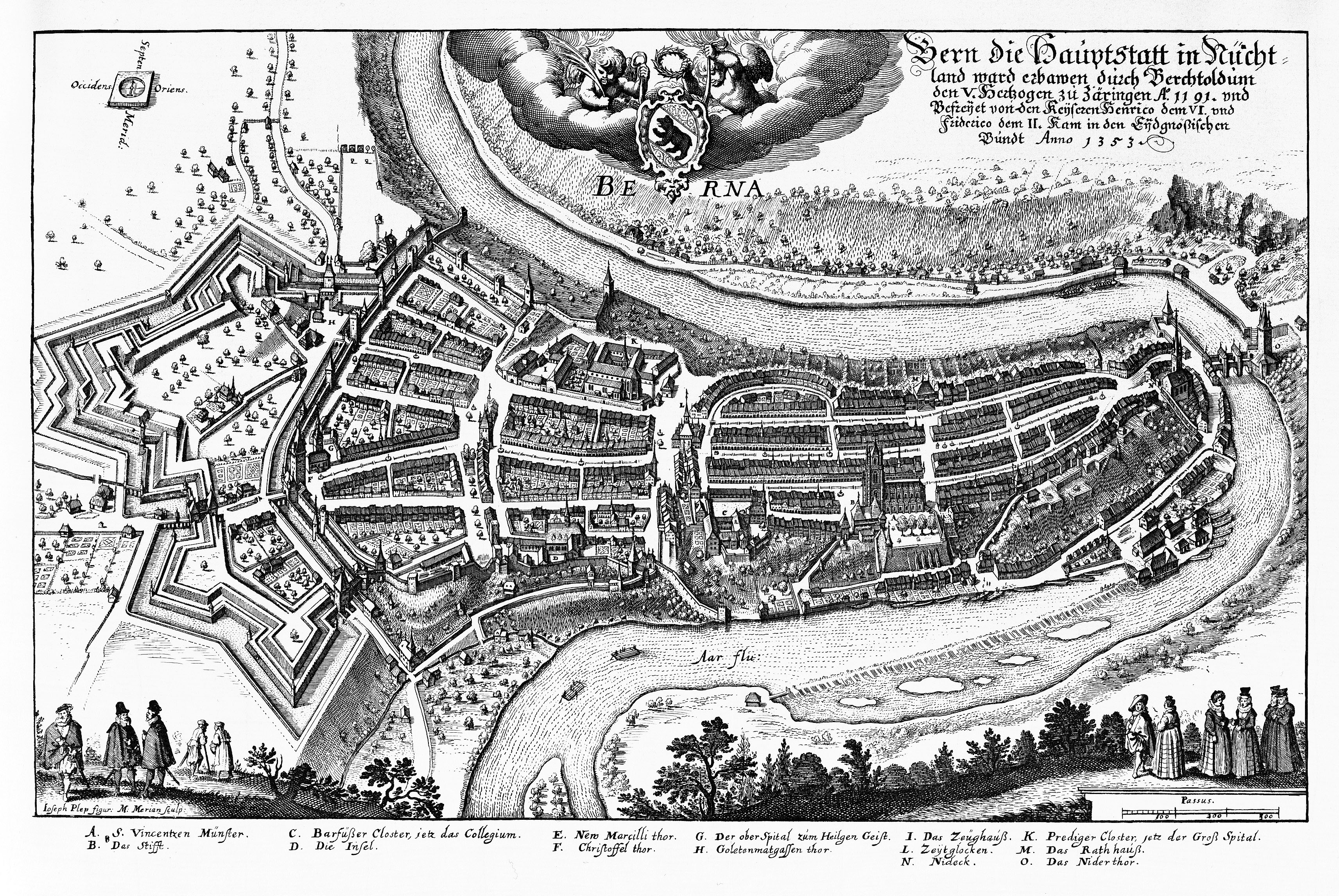 View of the city of Bern 1638